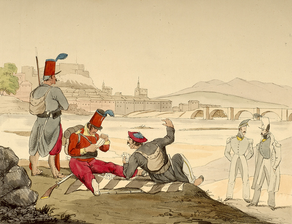 The Chapelgorris. The chapelgorris are Carlist deserters and volunteers of the revolted provinces, who have taken up arms in the service of the Queen, the greatest part of the men belonging to the province of Alava. This regiment may be about 4 to 500 strong, commanded by officers of the line; excellent light troops and brave as lions..